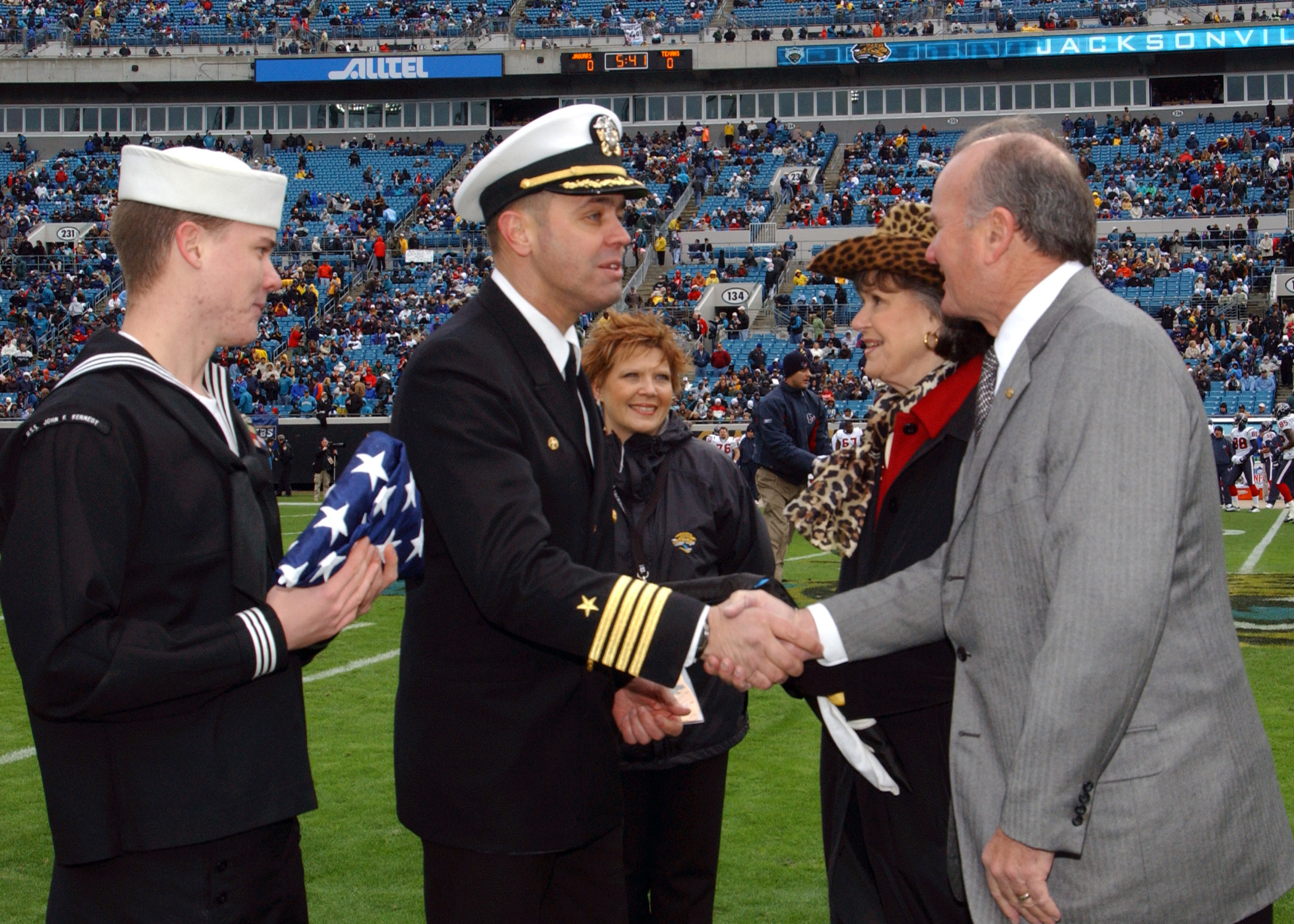 Jacksonville, Fla. (Dec. 27, 2004) - Commanding officer of the aircraft carrier USS John F. Kennedy (CV 67), Capt. Dennis E. FitzPatrick shakes hands with Jacksonville Jaguar owner Wayne Weaver prior to the National Football League (NFL) game between the Houston Texans and the Jacksonville Jaguars. FitzPatrick presented the Jaguars with a National Ensign that was flown in the Persian Gulf, during Kennedy's recent deployment. U.S. Navy photo by Photographer’s Mate 3rd Class Ian Elias (RELEASED)